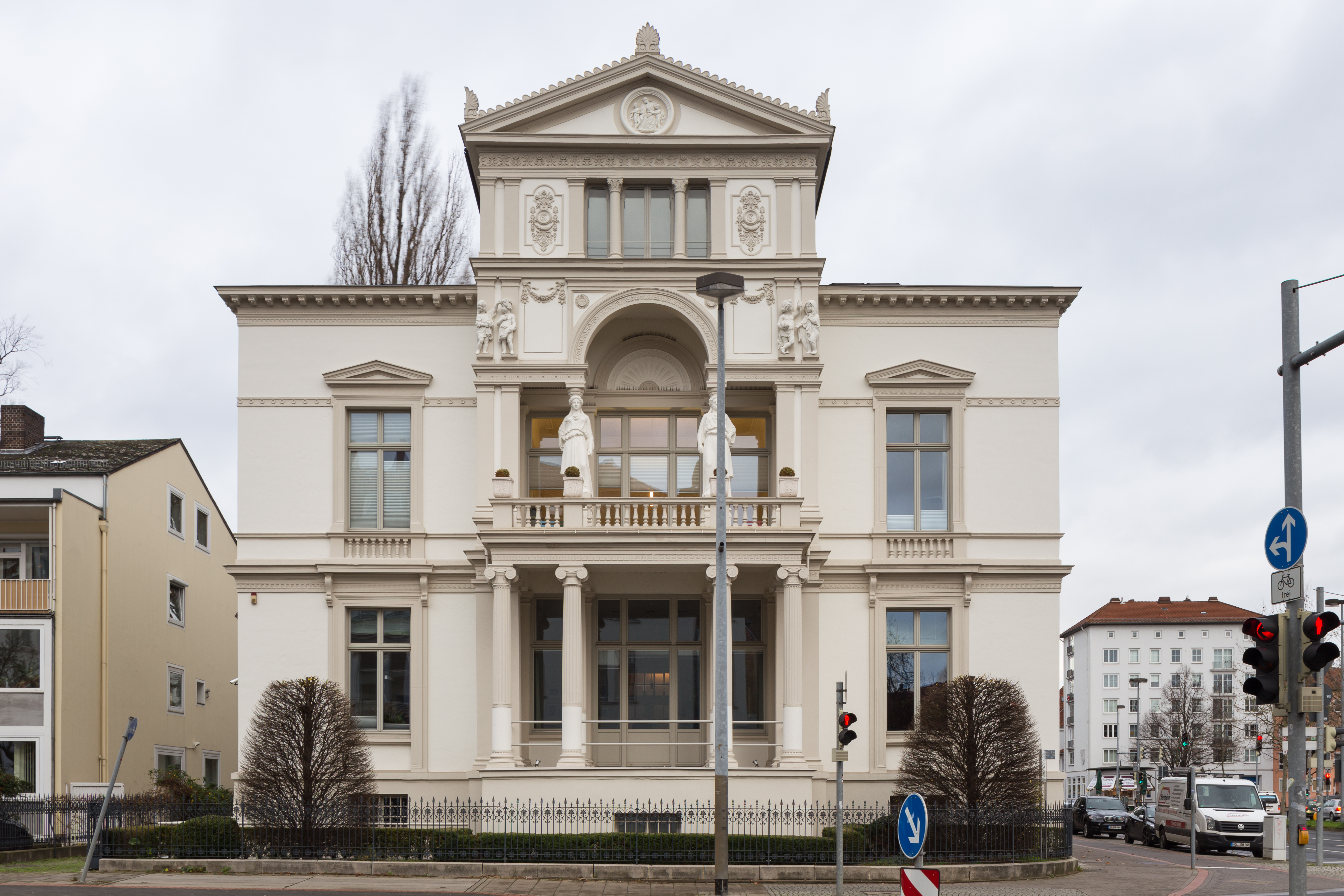 House located at Emmichplatz no. 4 (at the intersection with Schiffgraben road) in Oststadt quarter of Hannover, Germany.